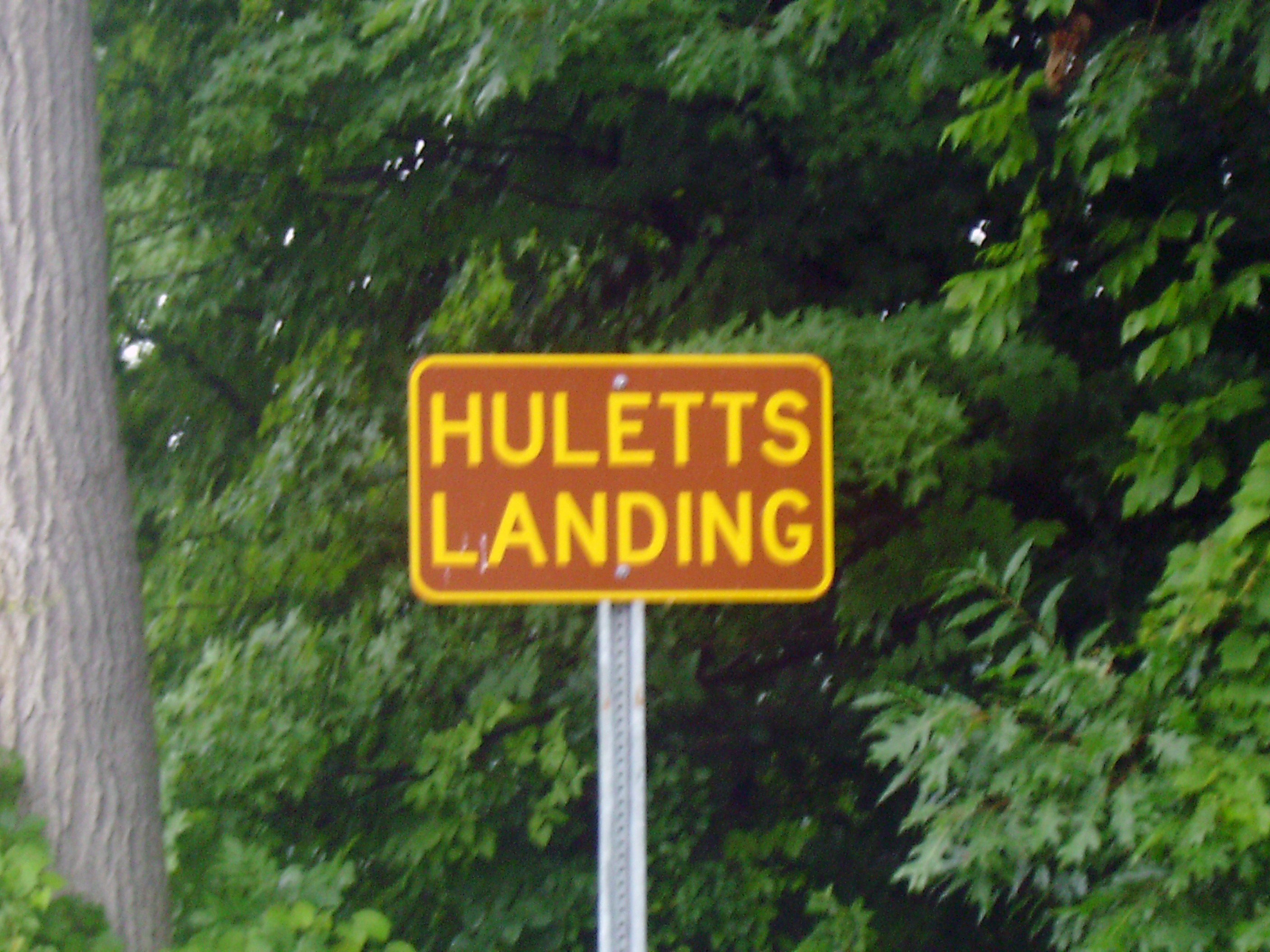 Sign when entering Huletts Landing, New York.